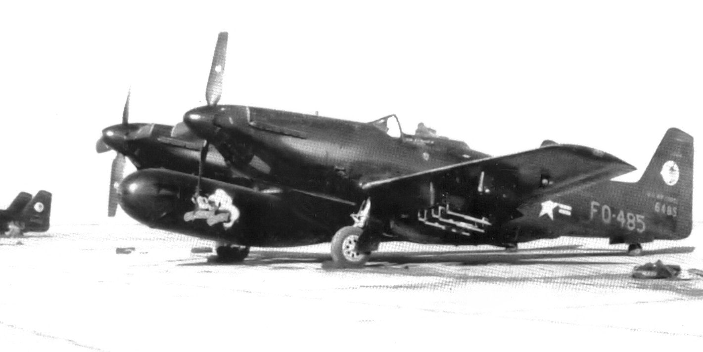 319th Fighter Squadron (All Weather) North American F-82F Twin Mustang 46-485 at Moses Lake AFB, Washington, October 1949